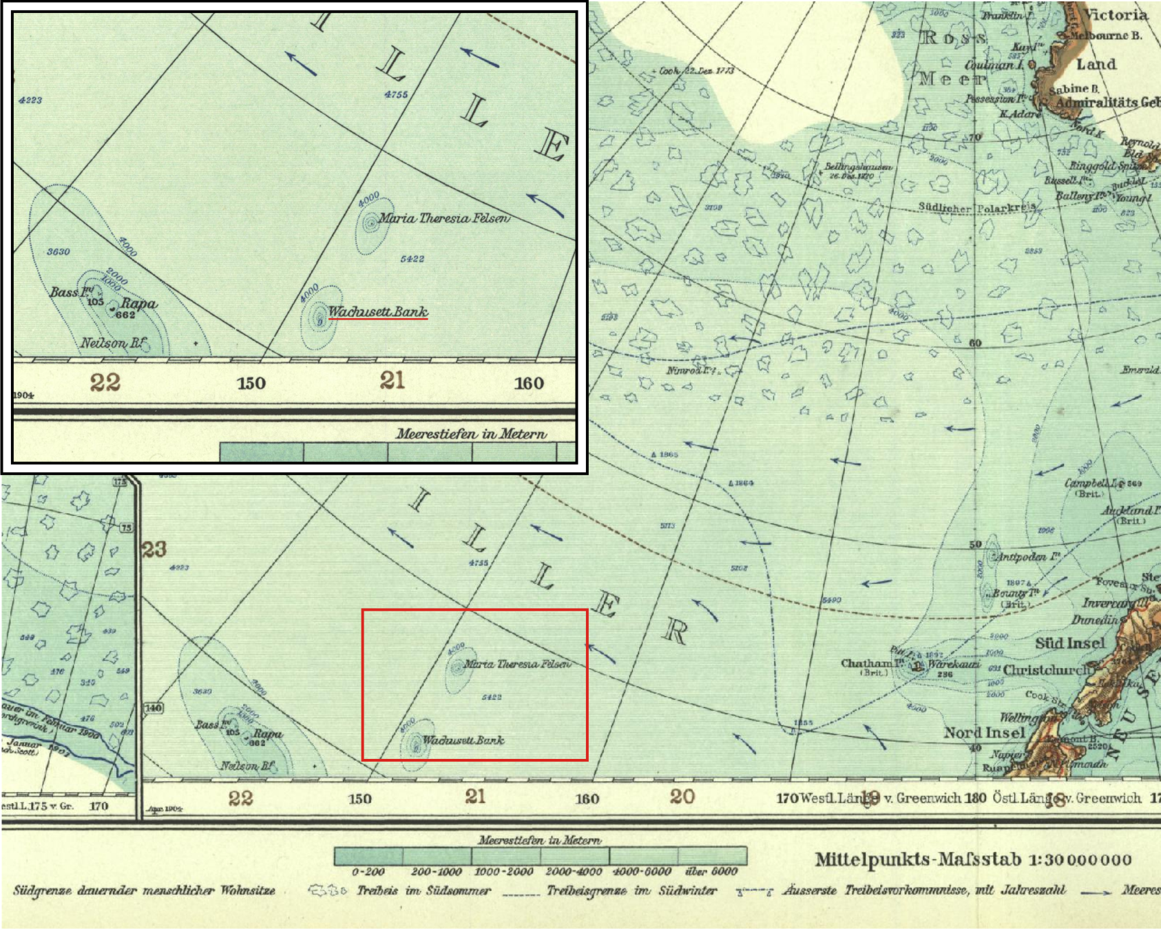 Wachusett Bank and Maria Theresa Reef on the German map of Antarctica 1904